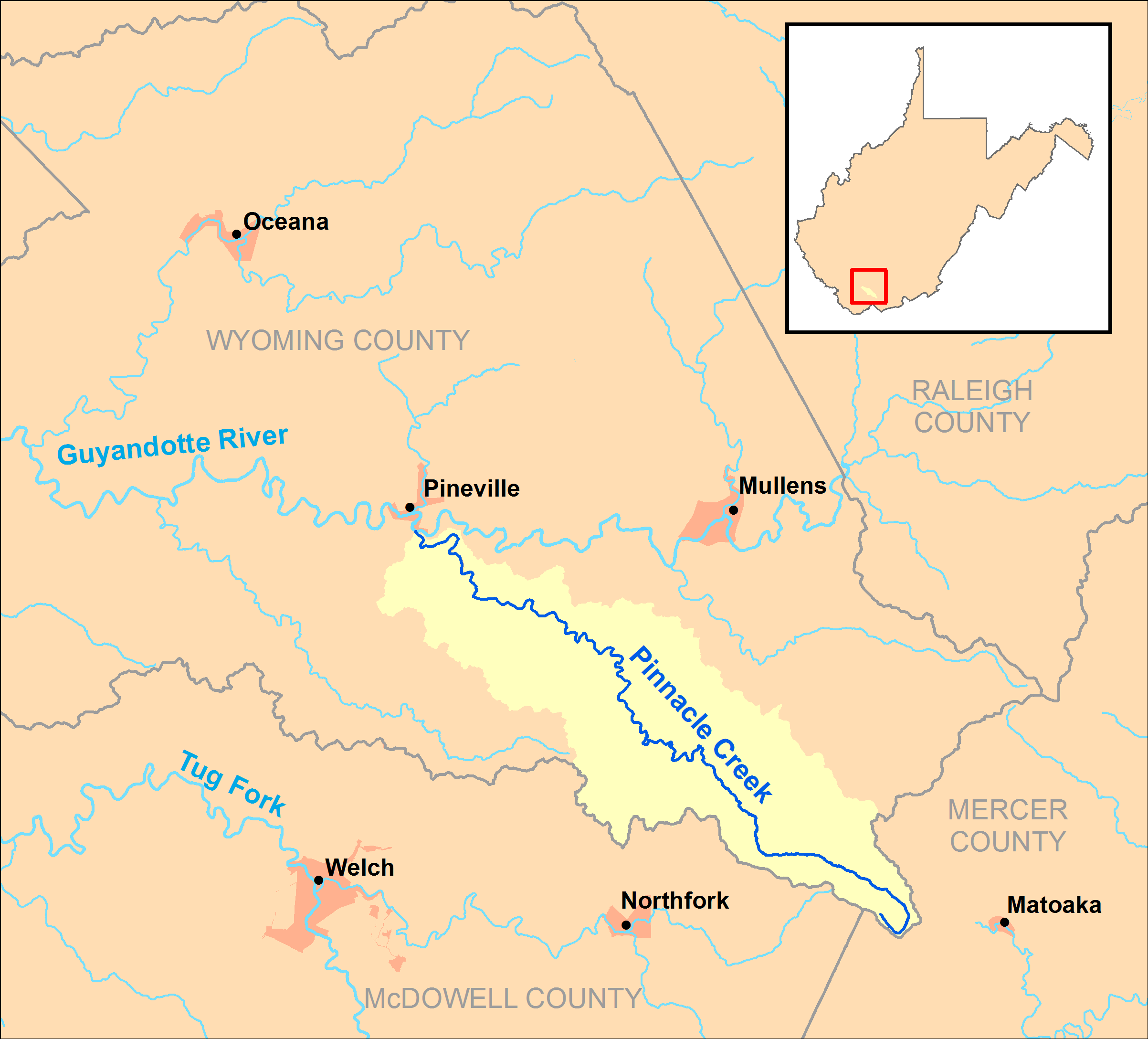 A map of Pinnacle Creek and its watershed (USGS HUC-12 050701010302) in Wyoming County, West Virginia.